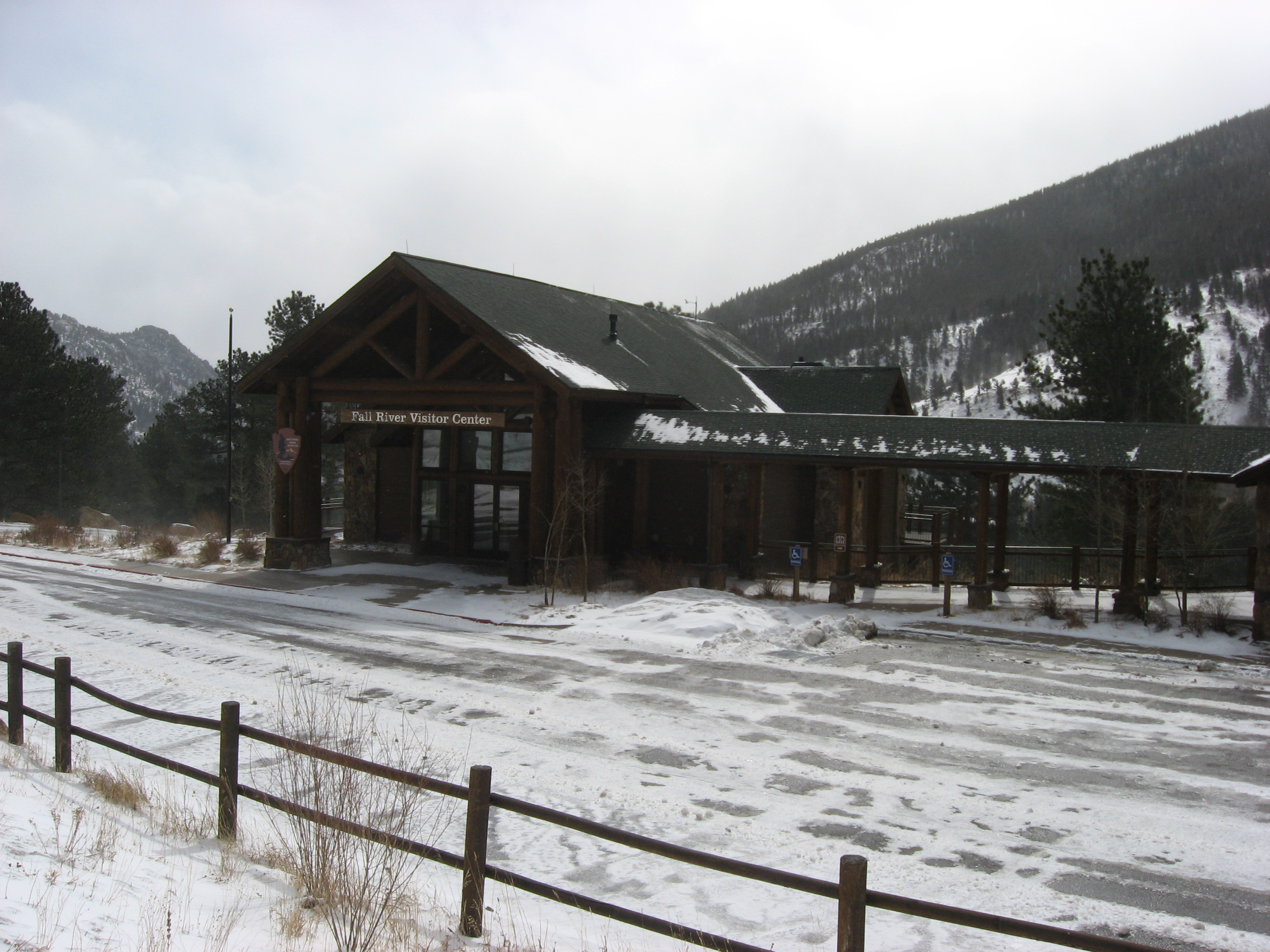 Front of the Fall River Visitor Center, located at the Fall River Road entrance to the eastern side of Rocky Mountain National Park near Estes Park, Colorado, United States. The visitor center is part of the Fall River Entrance Historic District, which is listed on the National Register of Historic Places.